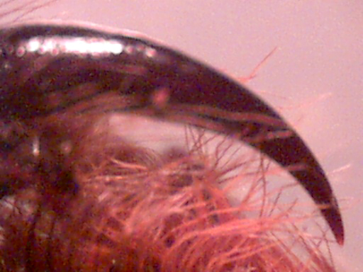 Fang and basal part of the chelicera of an immature (25 mm long) Psalmopoeus cambridgie (tarantula). The part that penetrates the skin is 2 mm long.